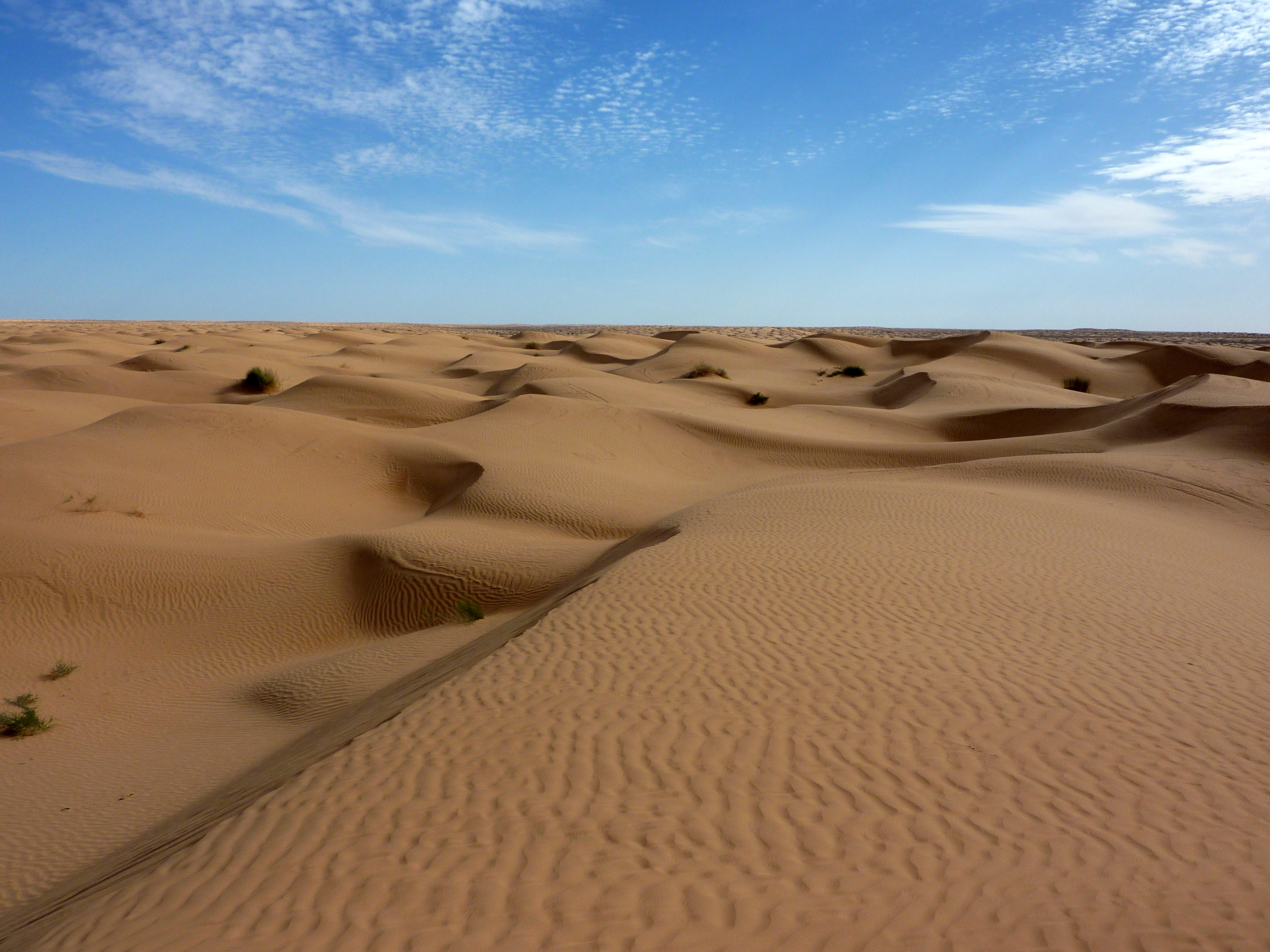 Sahara Desert